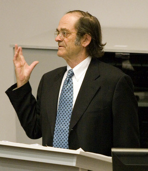 Public Lecture by Giovanni Arrighi: “Adam Smith in Beijing & Karl Marx in Shanghai: Dynamics of China’s Ascent,” (with B.J. Silver), Faculty of Humanities, Rhodes University, Grahamstown, South Africa, April 18, 2007.